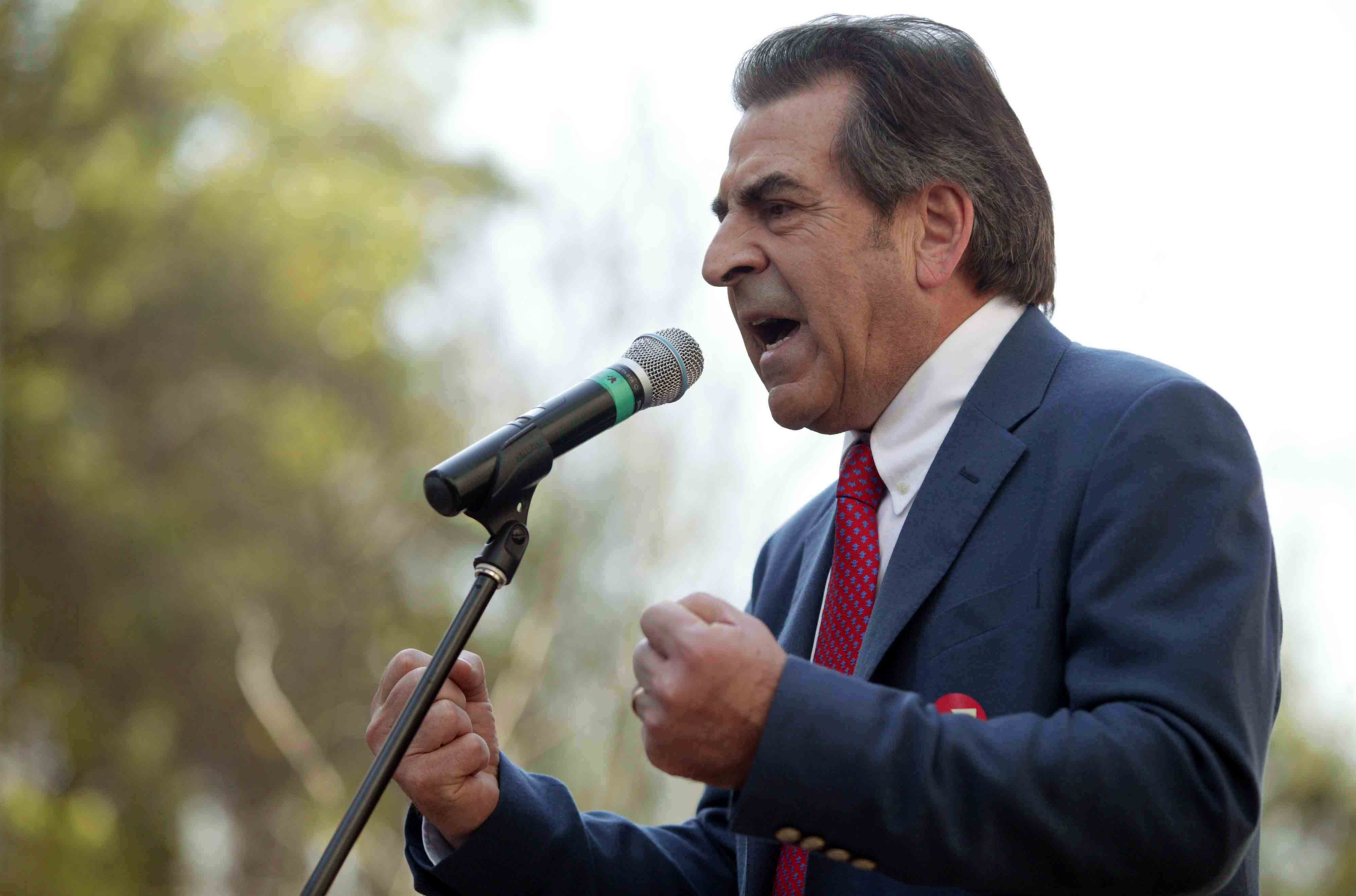 Eduardo Frei Ruiz-Tagle